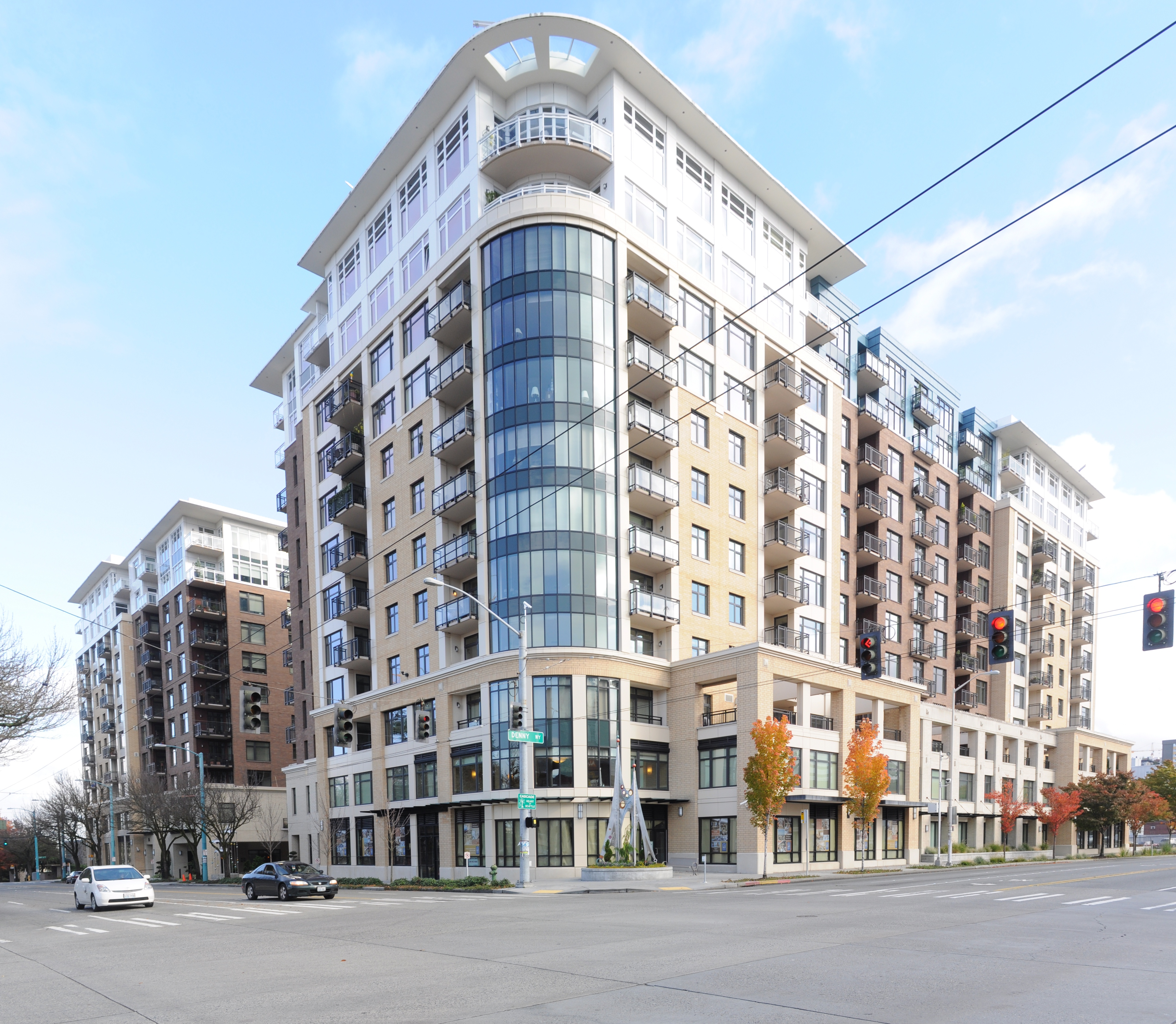 Mirabella, a not-for-profit Continuing Care Retirement Community (CCRC) at the corner of Eastlake Avenue and Denny Way, Seattle, Washington, USA. This image was created with Hugin